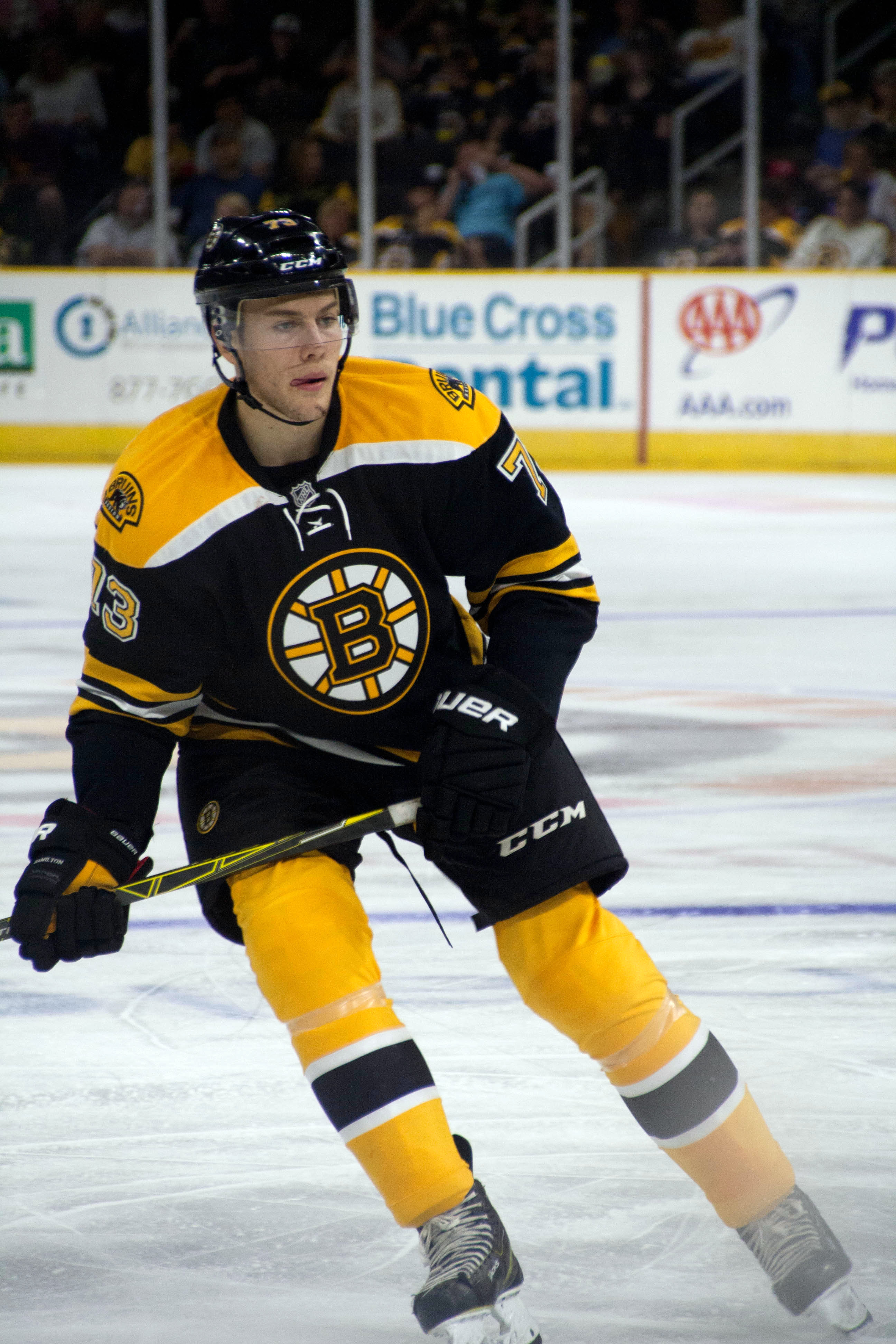 Brandon Carlo in a pre-season game with the Boston Bruins 2015